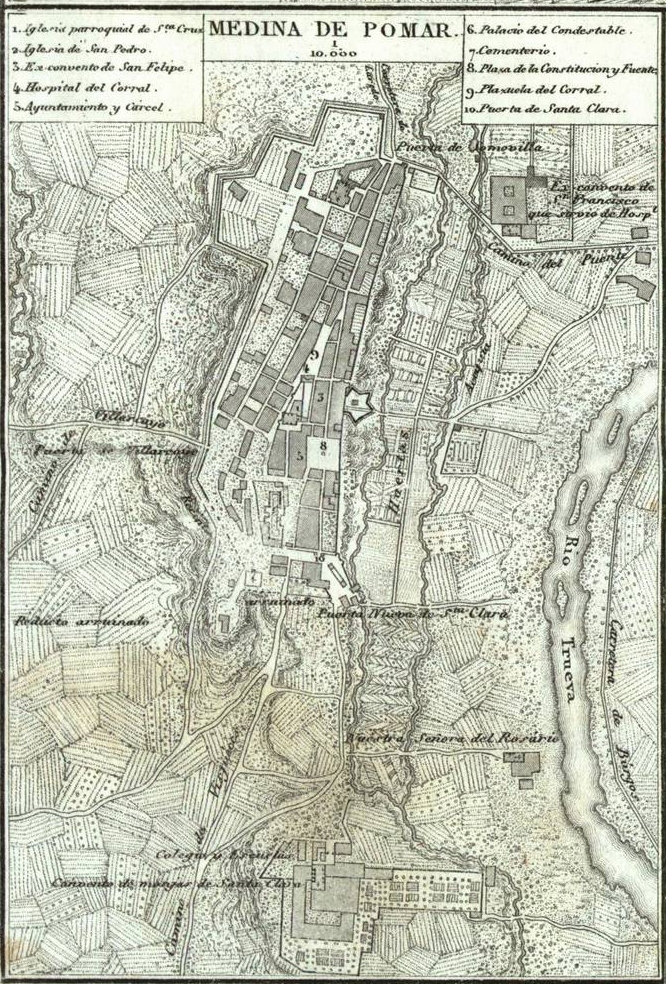 Map of Medina de Pomar cropped from the 1868 province of Burgos map by Francisco Coello